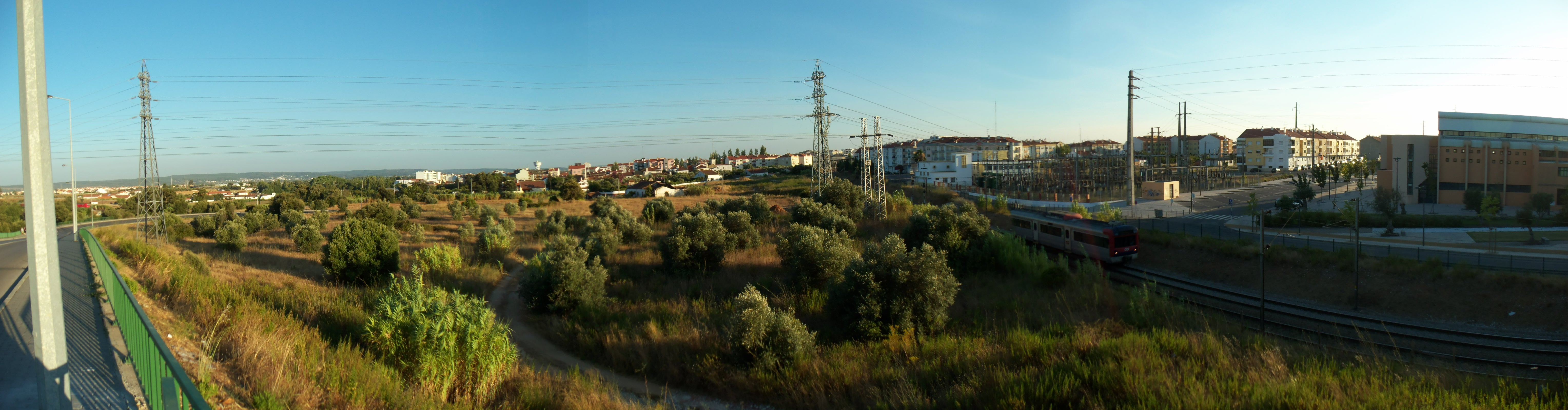 Panoramic views of the city from the bridge which is near the sports area of the city. Description: right you can see part of the sports hall and municipal sub-power station that feeds the city, and behind several residential buildings already owned by the city. In the center background you can see some buildings in the city and the water tank that feeds the south of the city. On the left you can see part of a freight train operating on the line from Beira towards downtown Entroncamento station. Note: the train on the right is cut off because this picture was taken with three photographs and the first photo was happening at that moment a train and the second had passed.